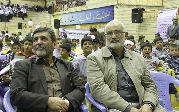 Saeid Sayyah Taheri & Mohammad Hossein Saffar Harandi at the Student Film Festival of Holy Defense